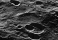 Oblique view of Stetson (center) with Stetson E and G (below center), on the far side of the moon, facing west.